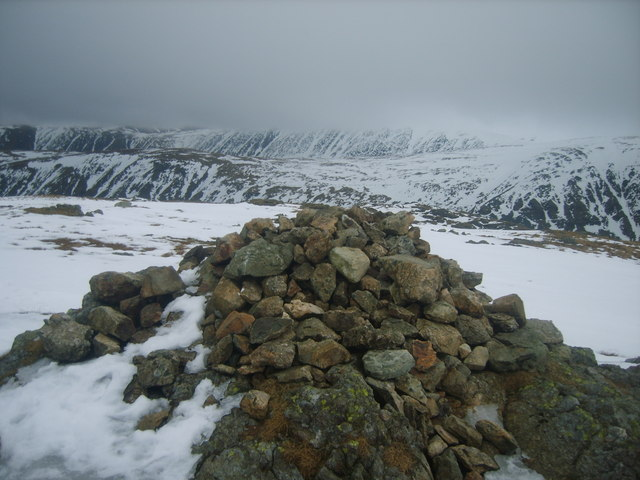 Cairn Stoney Cove Pike Looking towards the High Street Ridge. Stoney Cove Pike as a name was first seen recorded in the year 1614. The fell is also referred to as Caudale Moor which really relates to the moorland at the top of Caudale Head to the north east. Caudale comes from Old Norse 'kaldr' meaning cold which would fit with this north facing valley. Just south of Caudale Moor is John Bells Banner another interesting name thought to relate to a boundary mark. Two candidates for John Bell are 'Old' John Bell a local man who put his mark on a deed dated 1589 but a more likely John Bell is the curate from Ambleside at around 1617. He is recorded to have built paved roads with his pupils in the area. (Whaley 2006).